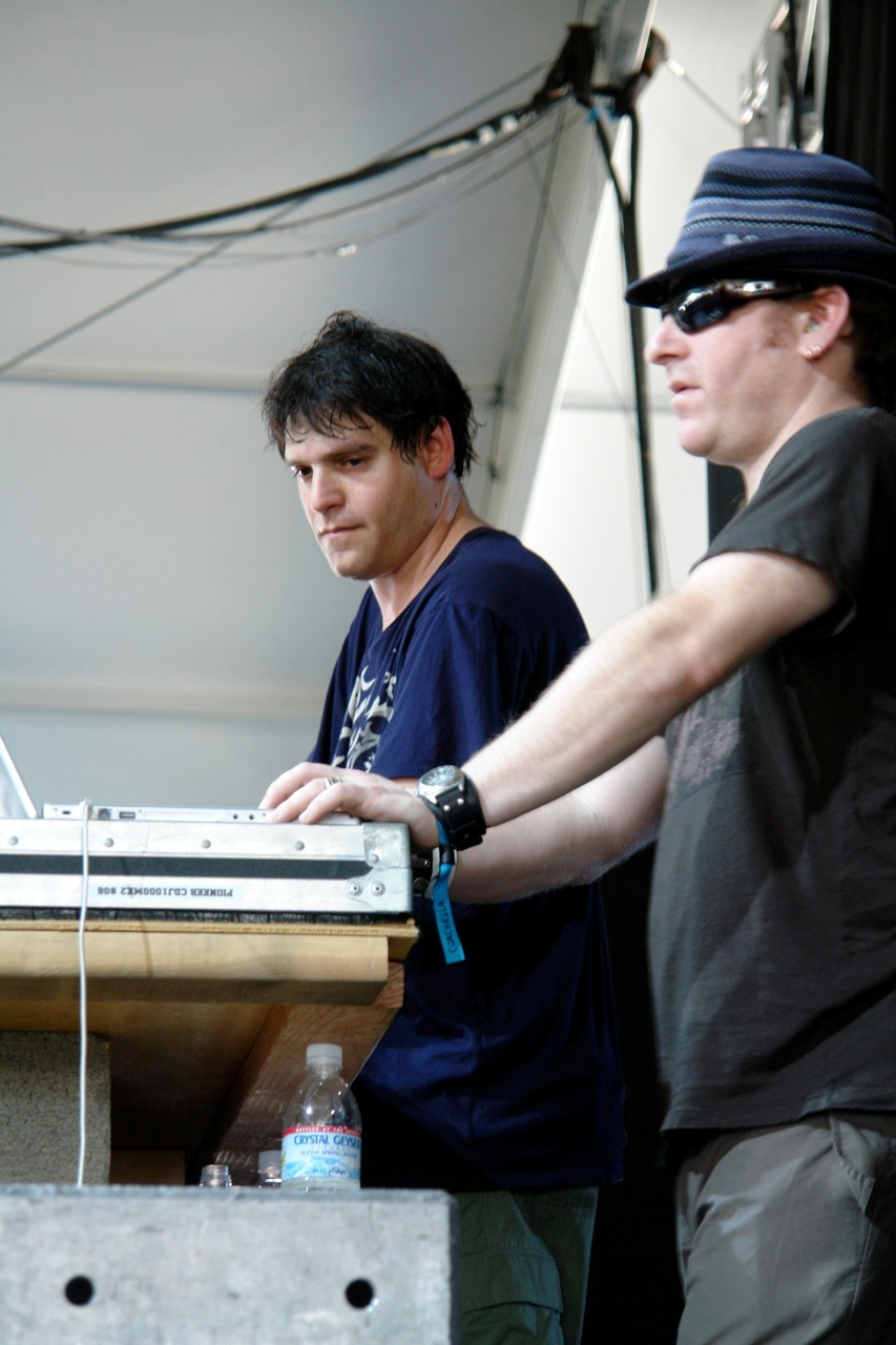 The picture features Dave Dresden (left) & Josh Gabriel (right) at Coachella festival in Palm Springs